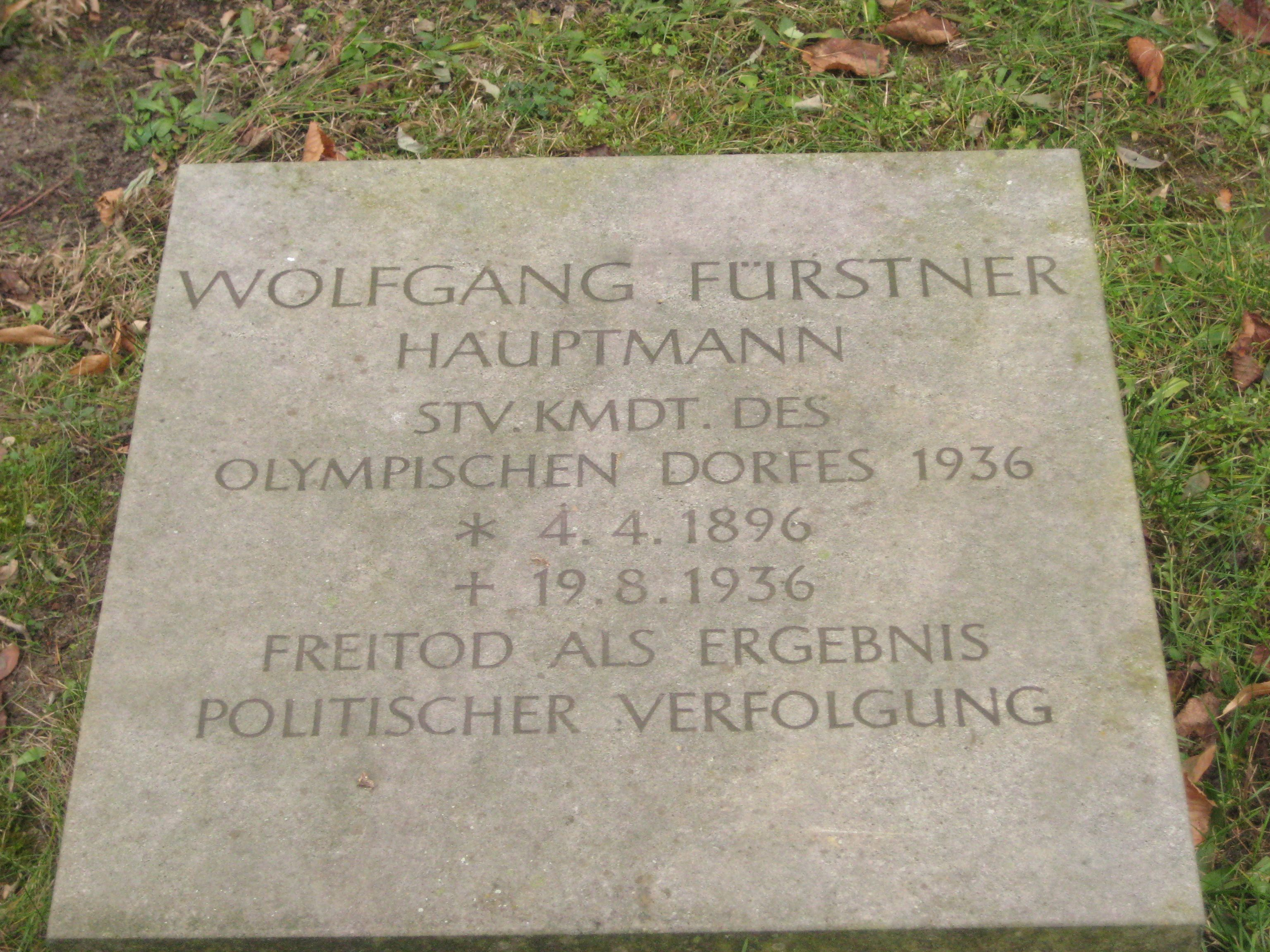 Grave of Wolfgang Fürstner at Invalidenfriedhof cemetery, Berlin